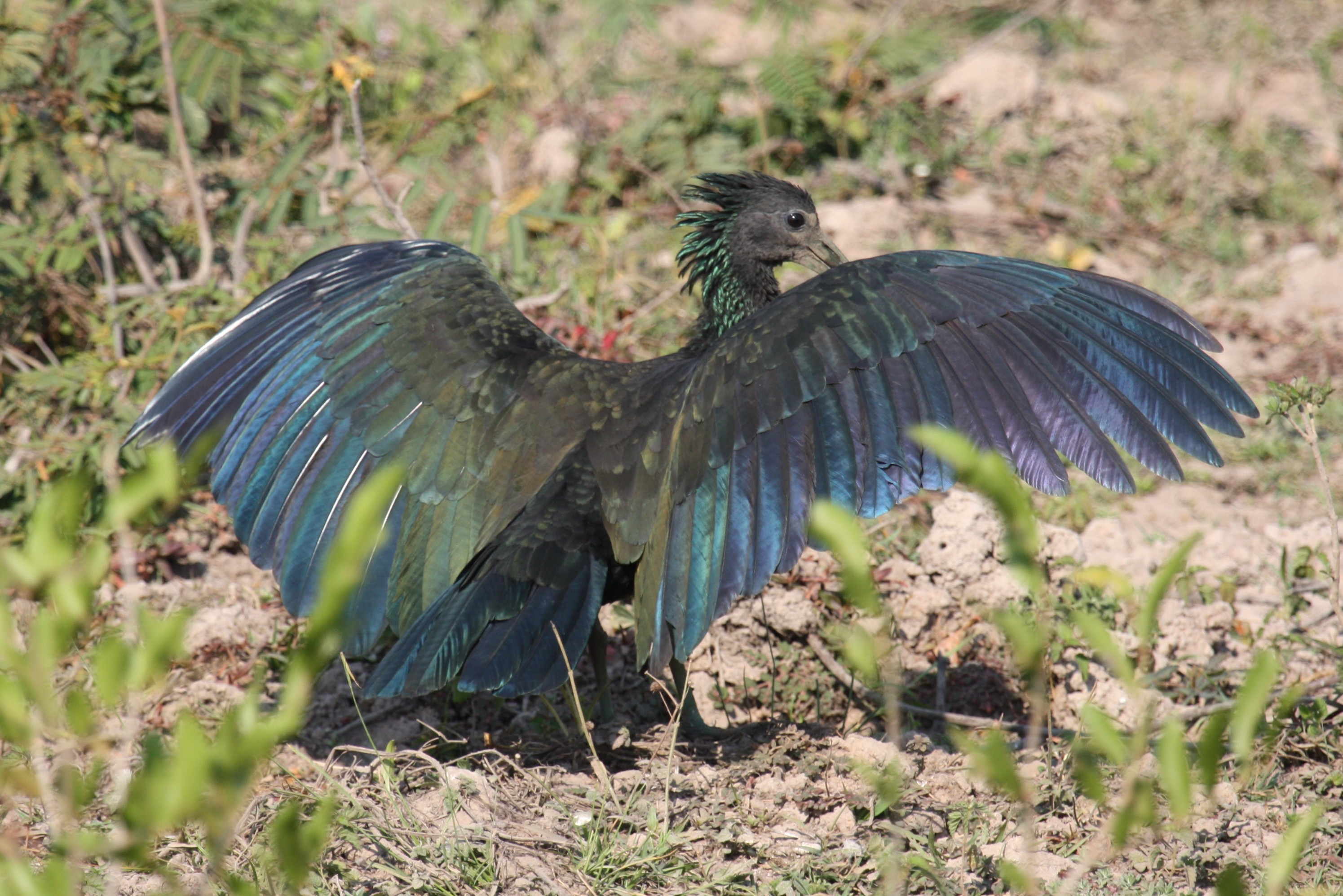 Common in the Pantanal.